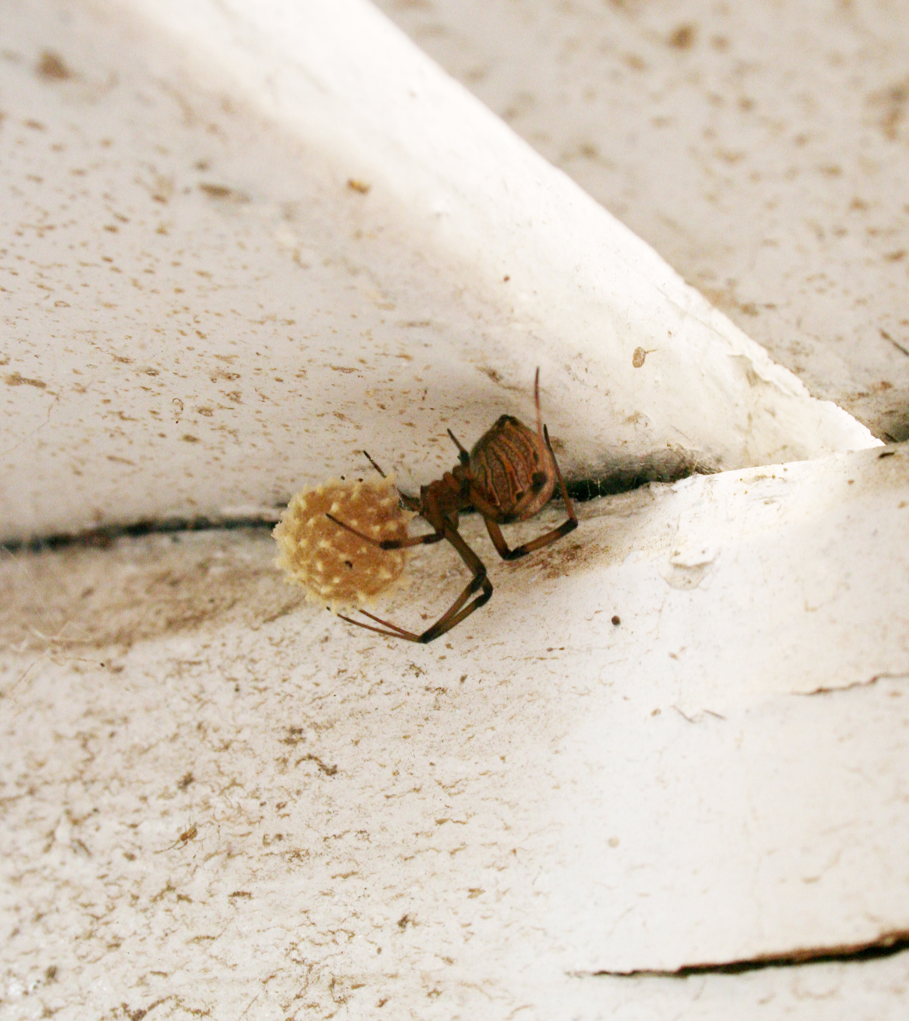 Brown Widow with her egg sac, on St. Kitts.